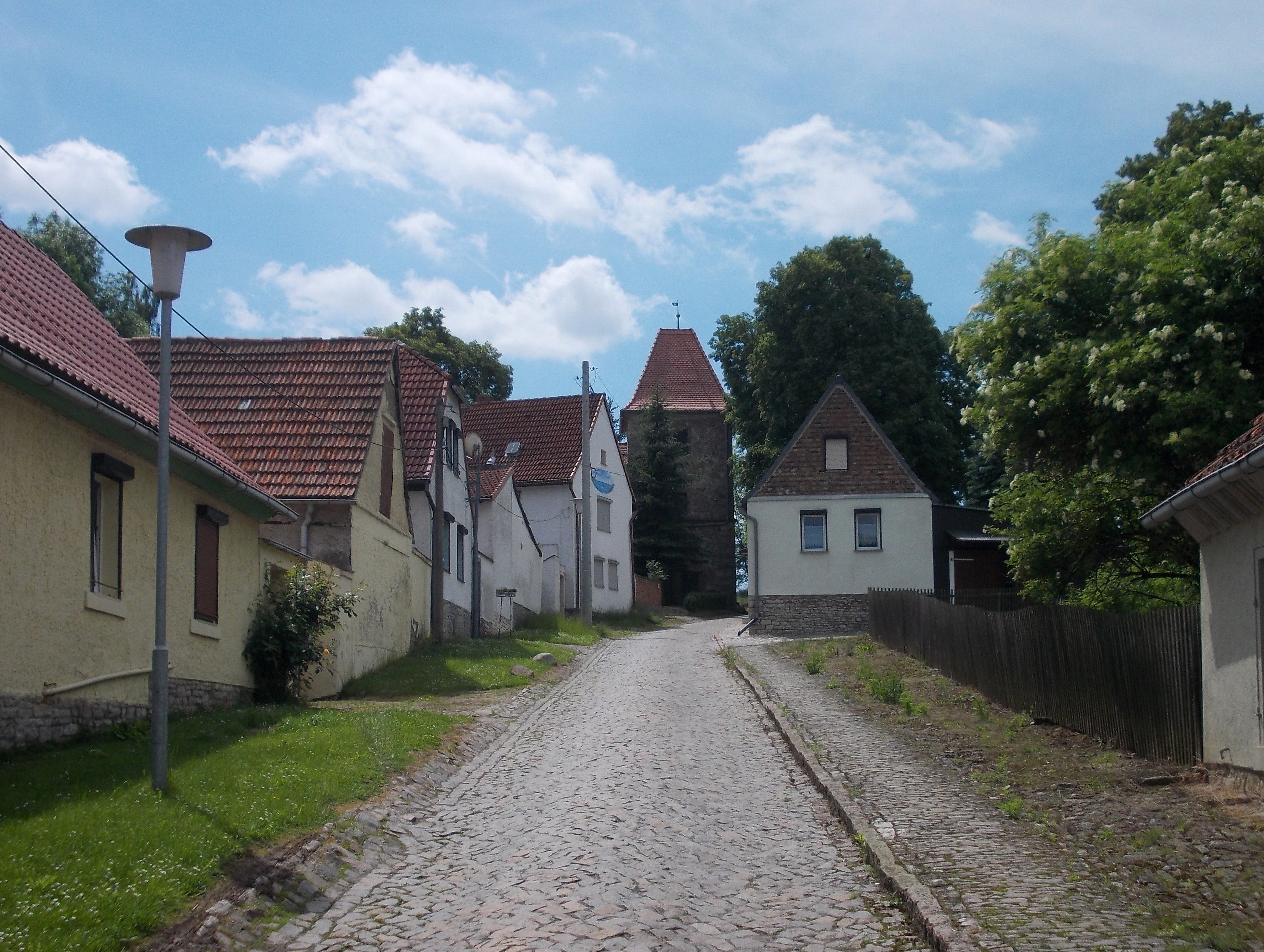 Village street in Kuckenburg (Obhausen, district: Saalekreis, Saxony-Anhalt)